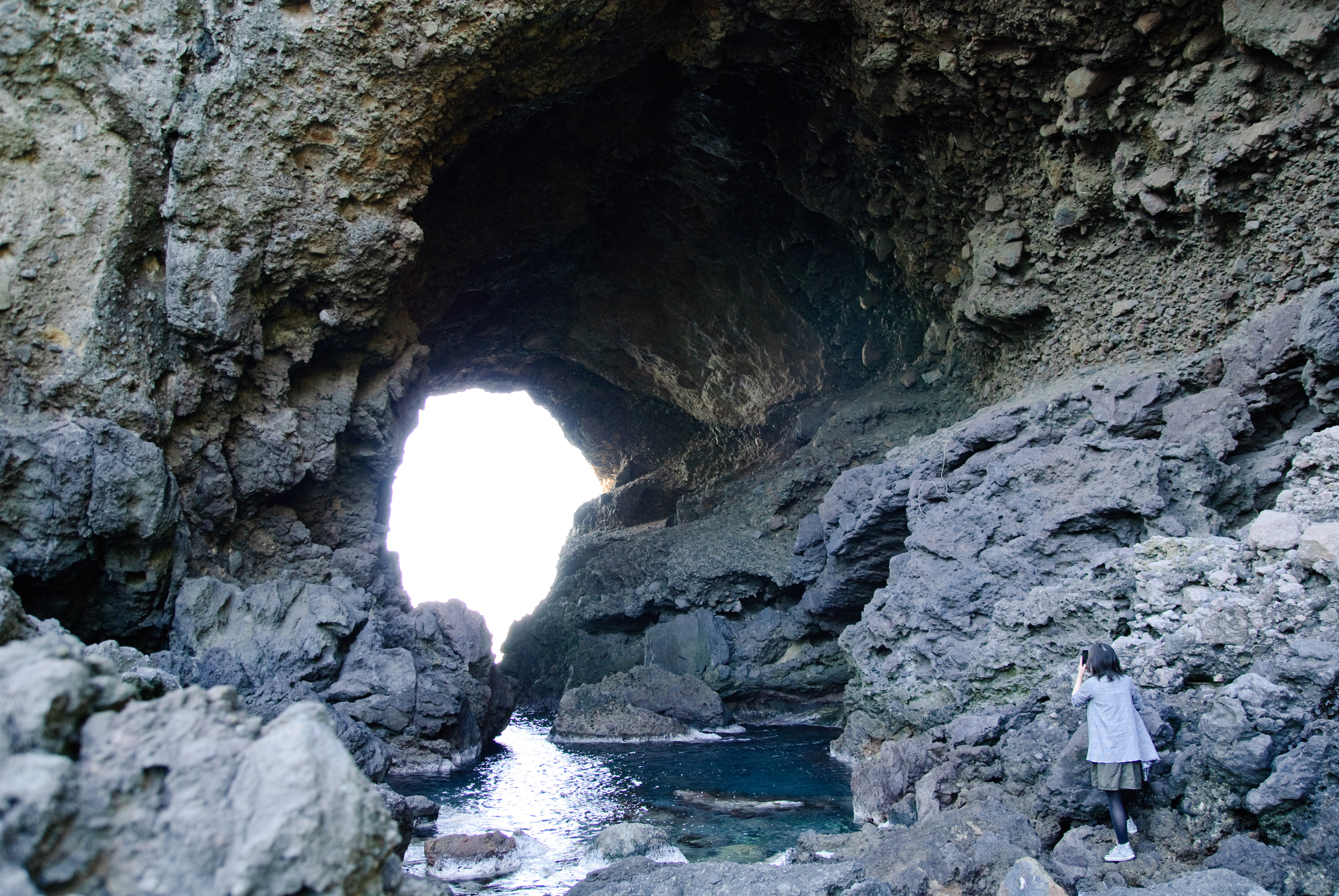 Yodo-no Domon in Toyooka,Hyogo Prefecture,Japan.